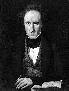 Portrait of Carl Jonas Love Almqvist